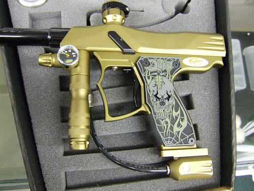 FEP Quest pictured inside the "coffin" box